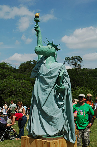 Eeyore's Birthday Party 2008